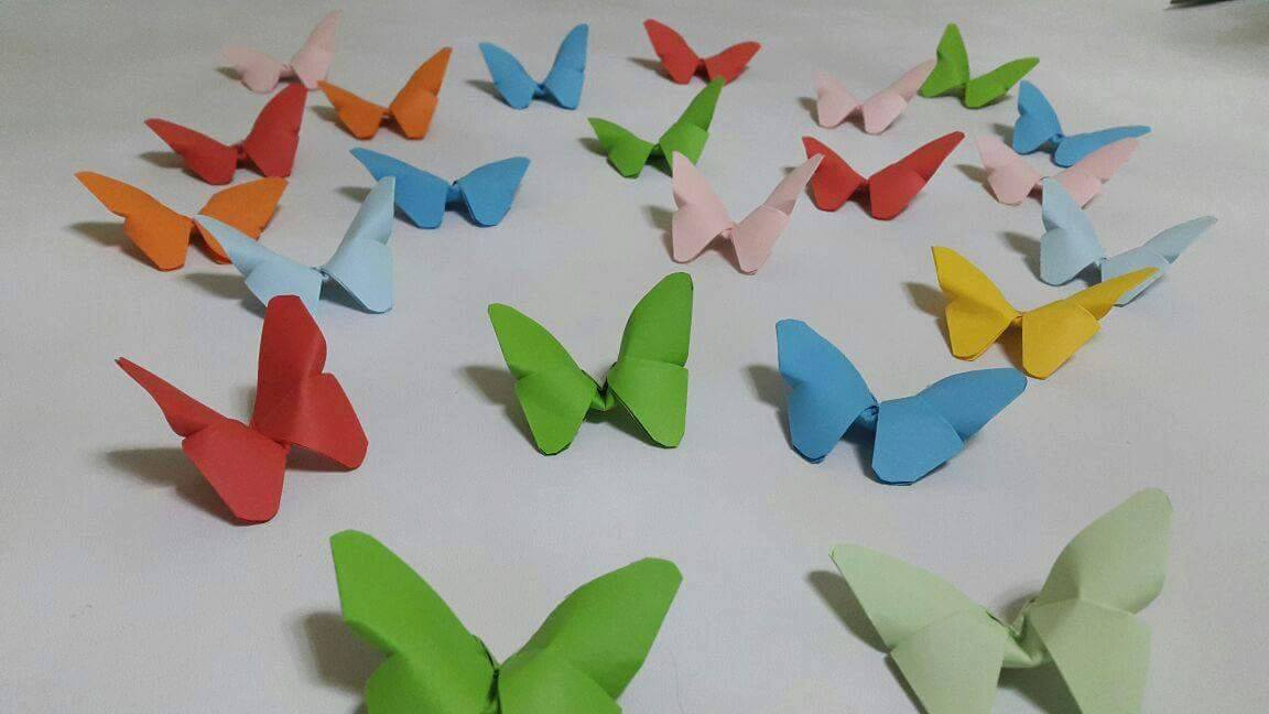 Paper butterflies 2